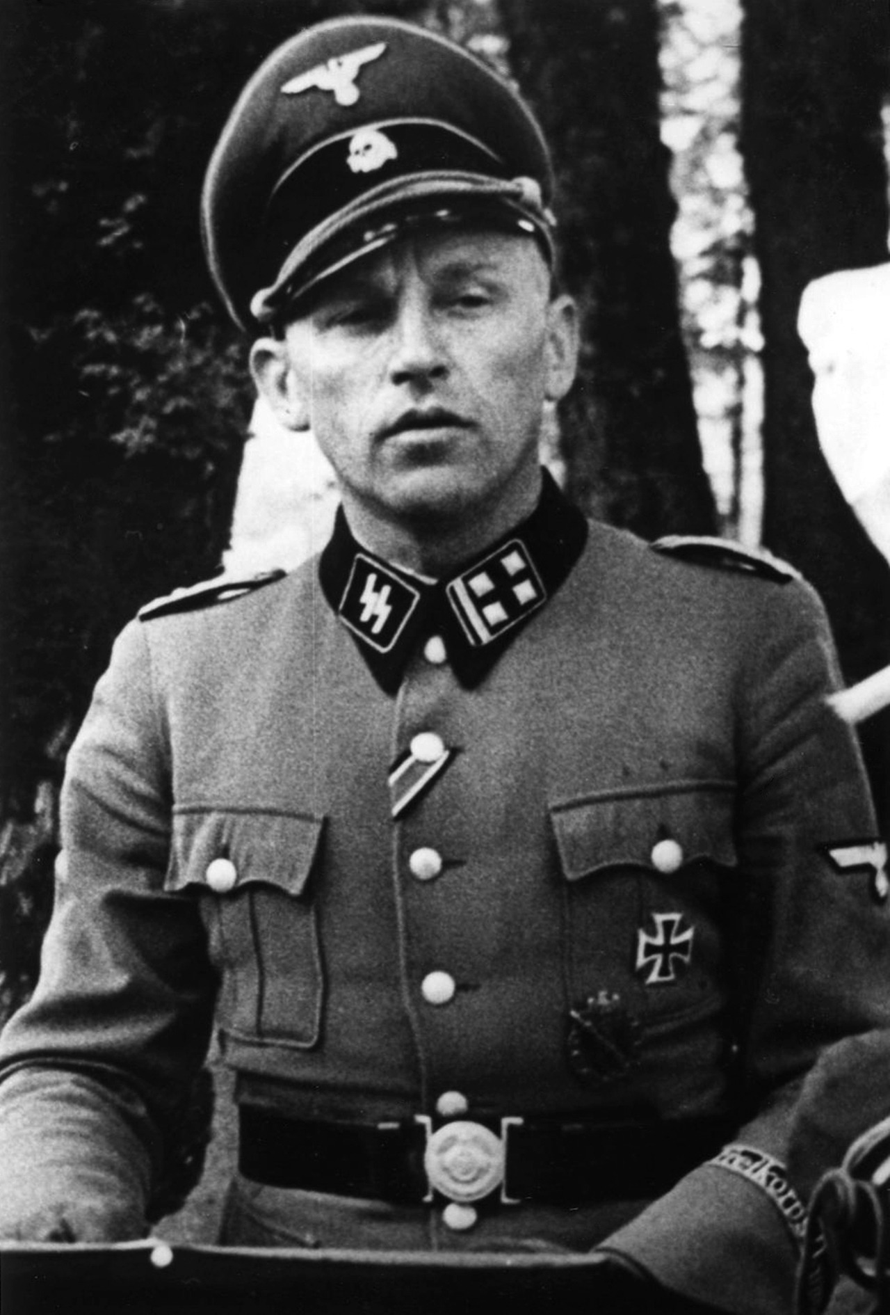 Knud Børge Martinsen as SS-Obersturmbannführer of Free Corps Denmark in uniform with the Iron Cross and the (silver) Infantry Assault Badge. On his left arm the cuff title with Freikorps Danmark is partially visible.